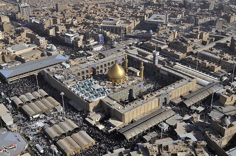 Najaf City in 2016